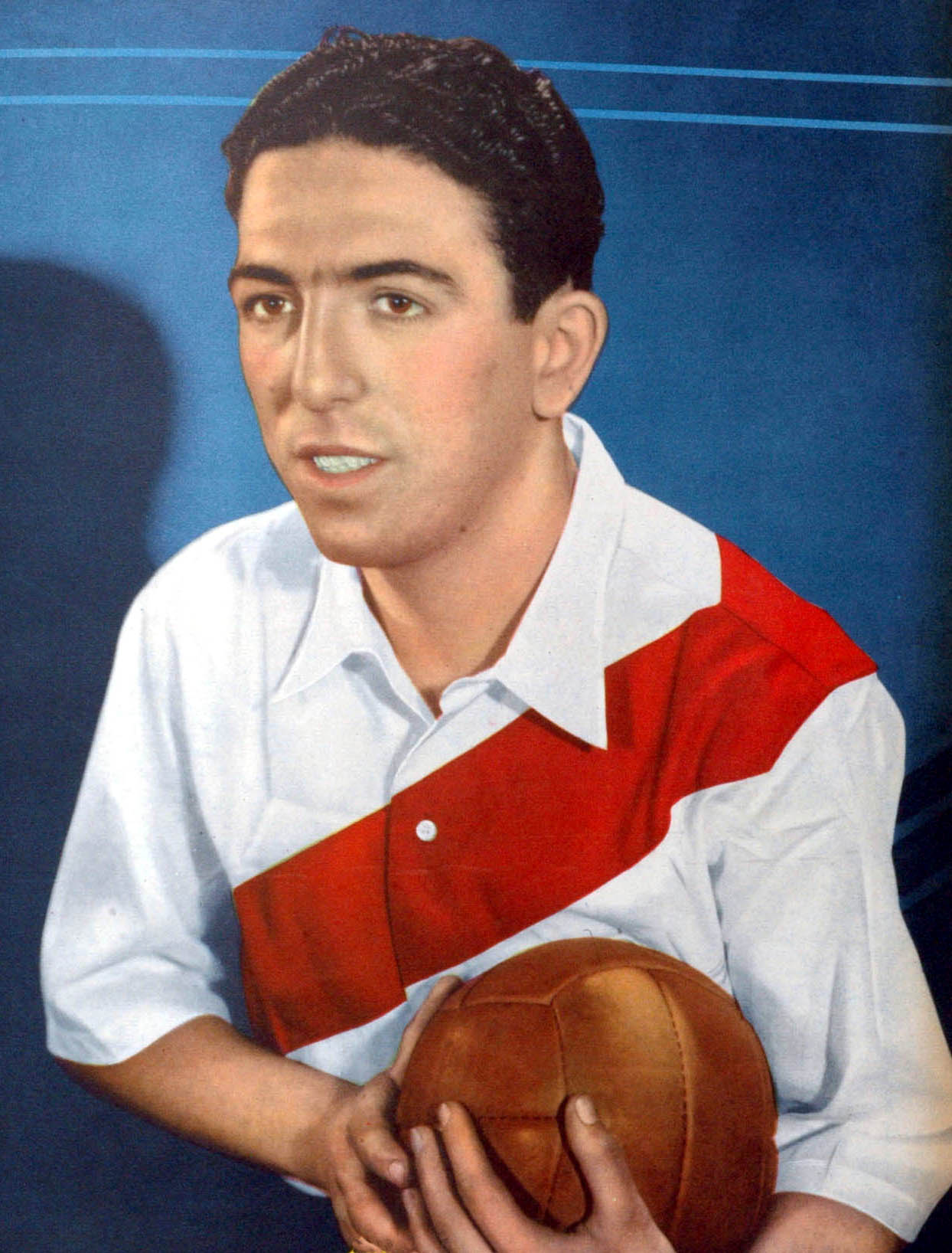 River Plate left insider, Angel Labruna.